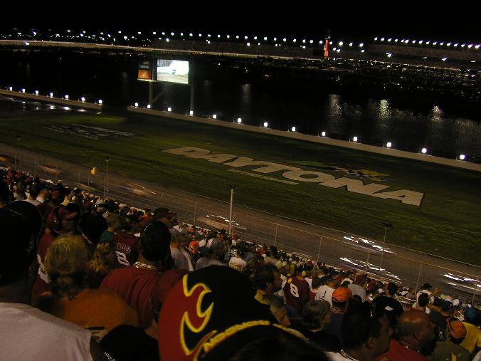 Cars race past spectators at the Pepsi 400 at Daytona International Speedway in Daytona Beach, FL on July 2, 2005.